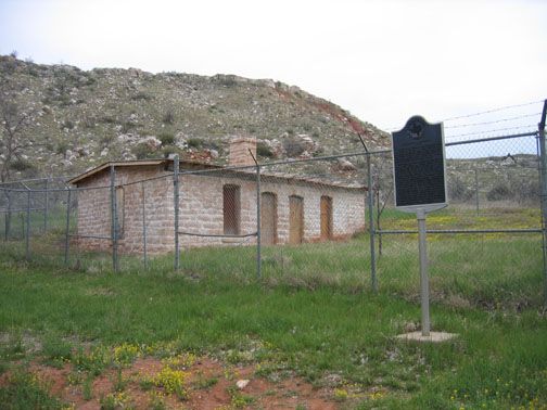 McBride Ranch House at Lake Meredith National Recreation Area, Texas, USA